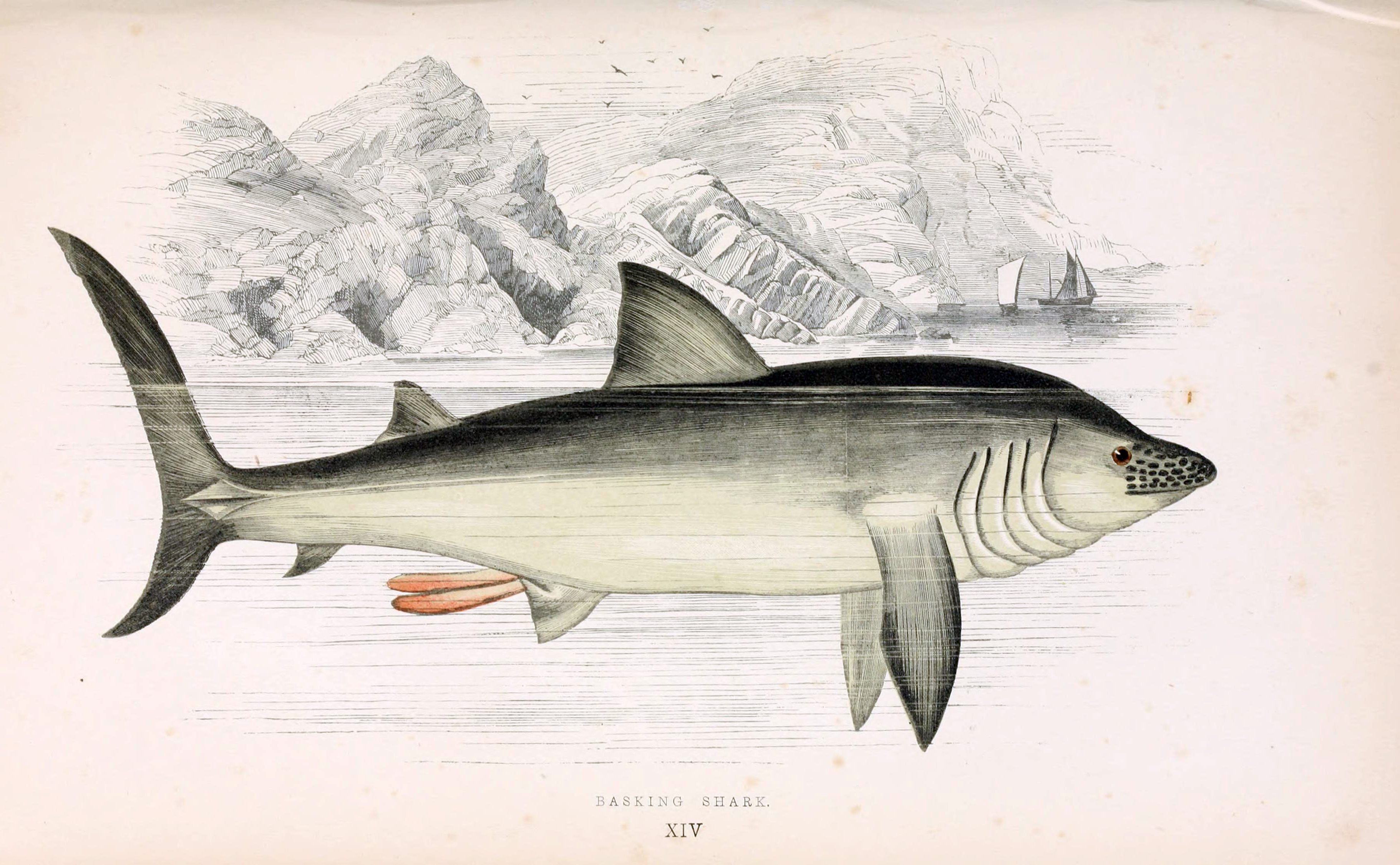 Draw of a basking shark (Cetorhinus maximus) by Jonathan Couch